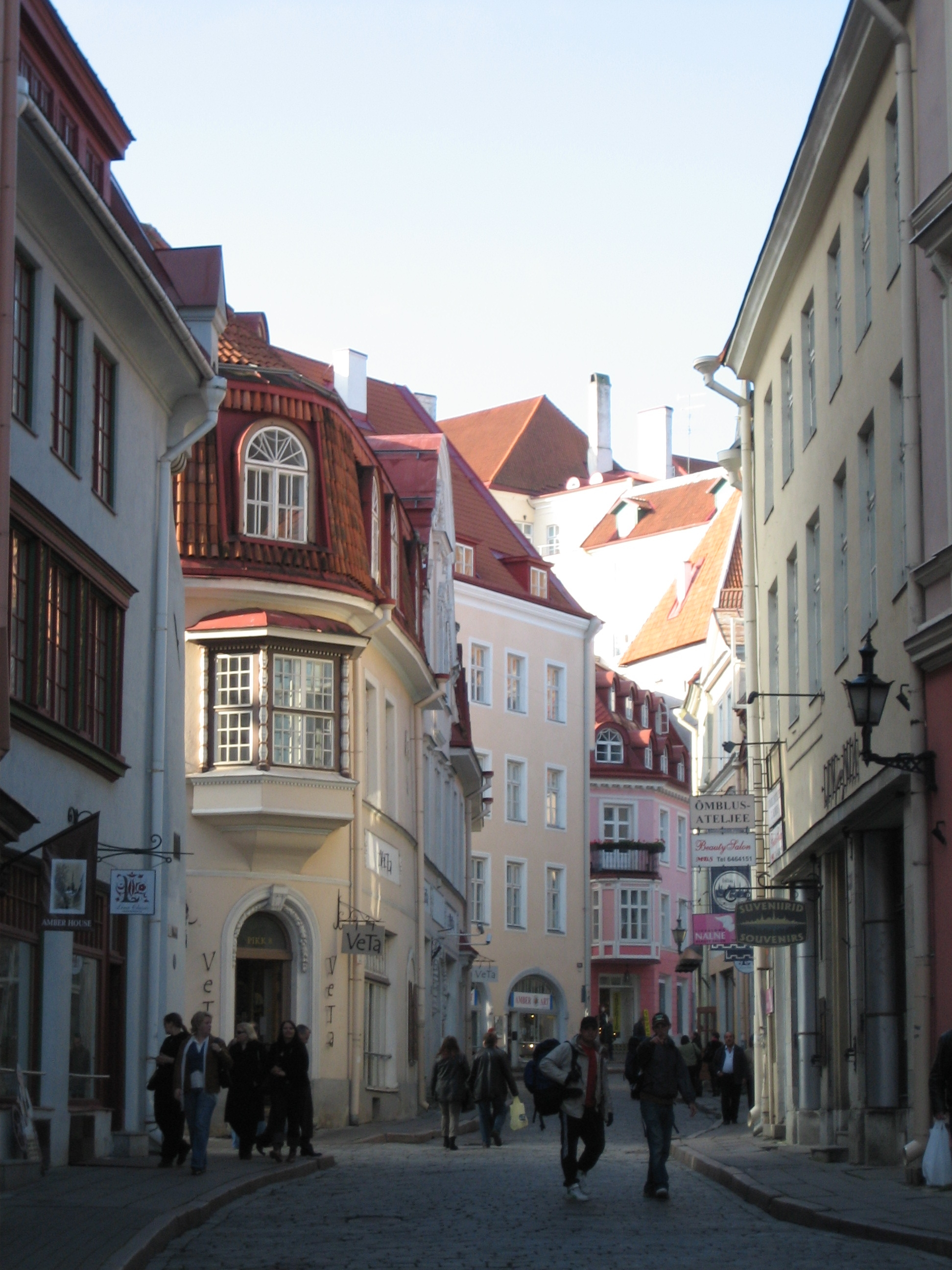 Pikk Street in Tallinn old town